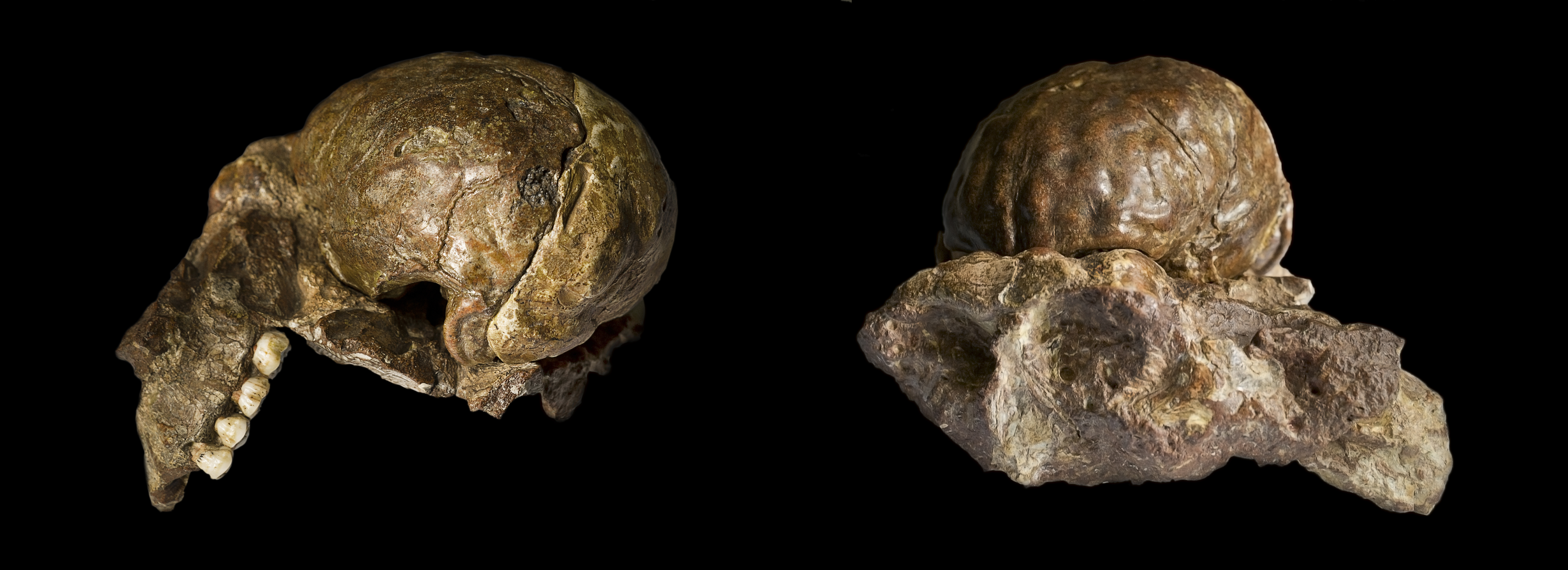 Australopithecus africanus - Two views of same specimen formerly named Plesianthropus transvaalensis (holotype) Natural endocranial cast (485 cm3) (Sts 60), articulated with a fragmentary skull still embedded in breccia (TM 1511) wich includes the left maxilla, the orbital area and most of the skull base. Found by G. W. Barlow and described by Robert Broom in 1938. Discovered in South Africa . Collection of the Transvaal Museum, Northern Flagship Institute, Pretoria South Africa.